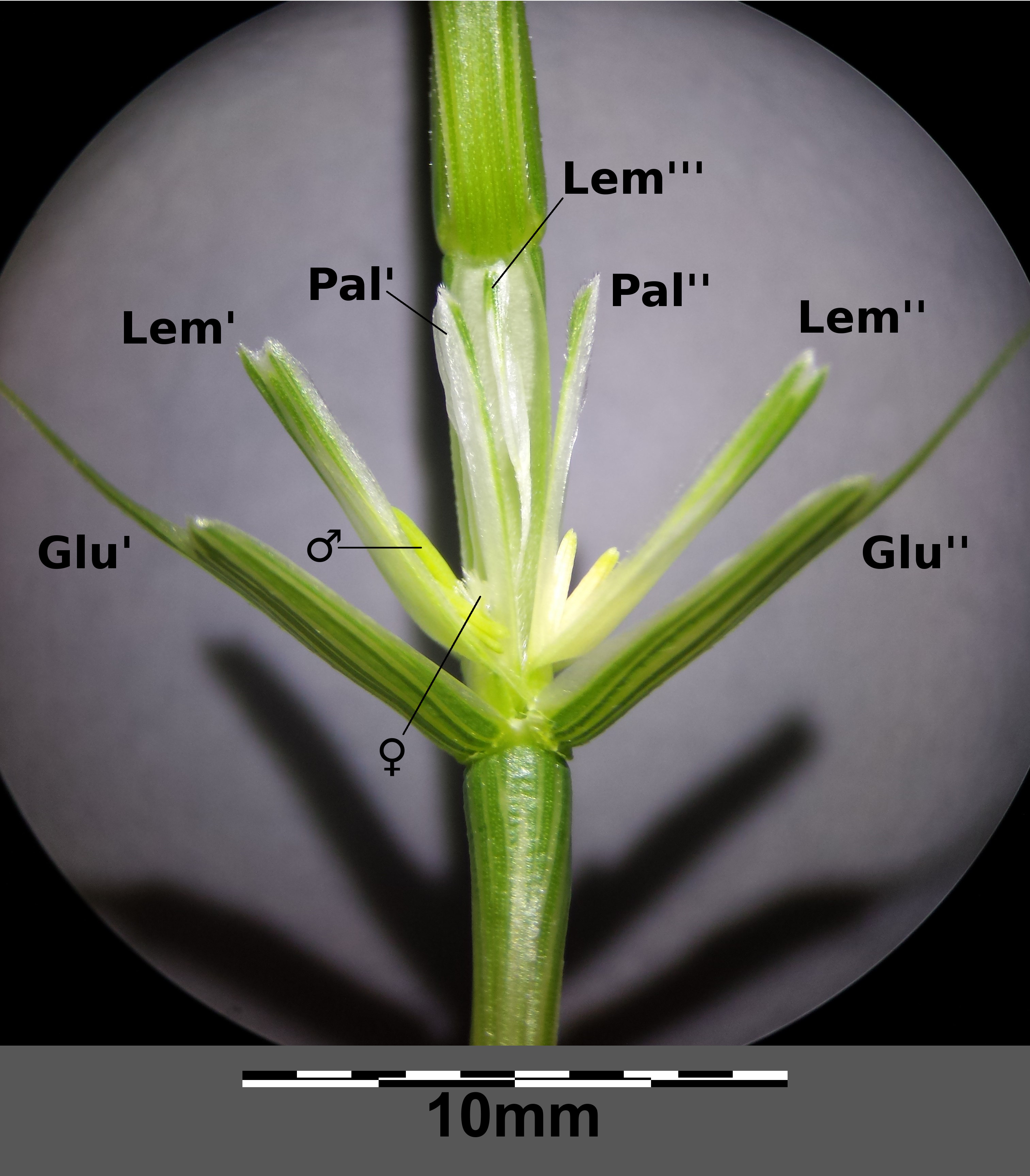 Spikelet expanded with: Glumae (Glu) Lemmata (Lem; Lem"' of sterile flower) Paleae (Pal) Taxonym: Aegilops cylindrica ss Fischer et al. EfÖLS 2008 ISBN 978-3-85474-187-9 Location: Floridsdorf rail station, Vienna-Floridsdorf - ca. 160 m a.s.l. Habitat: ruderal area